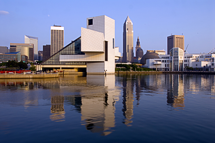 Photo by Brice Burtch, June 24, 2007